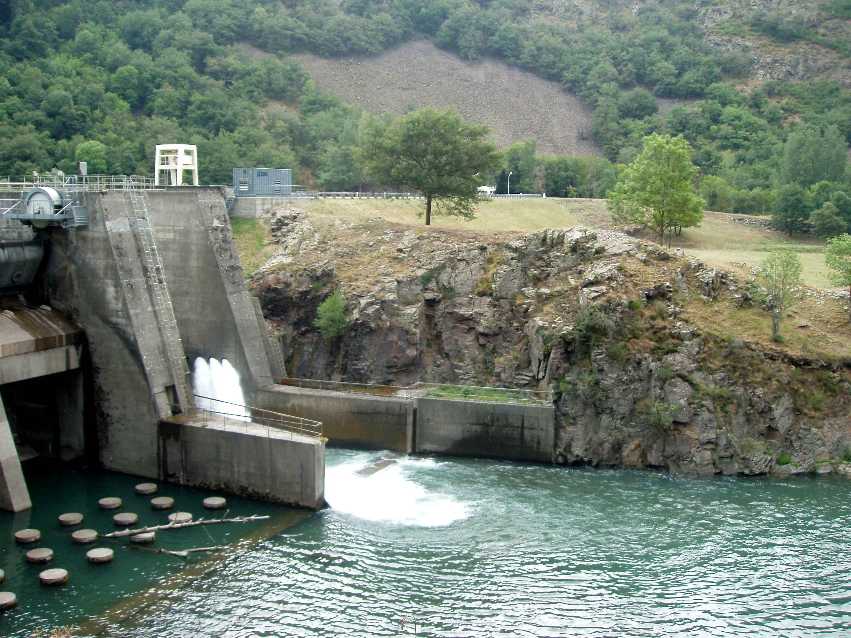 Plan d'Arem, an artificial lake where the "serment du plan d'Arem" took place